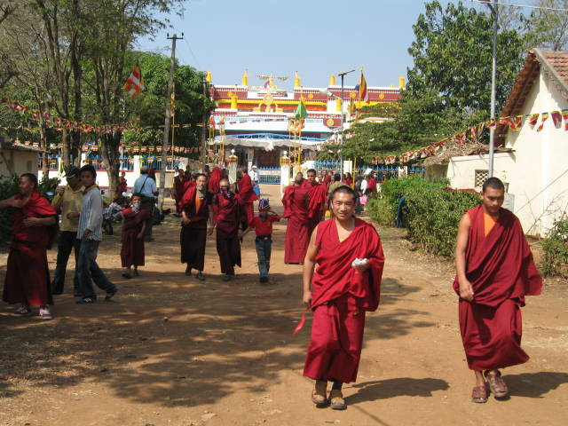 A Tibetan buddhist monastery nr Hunsur, Karnataka, India.